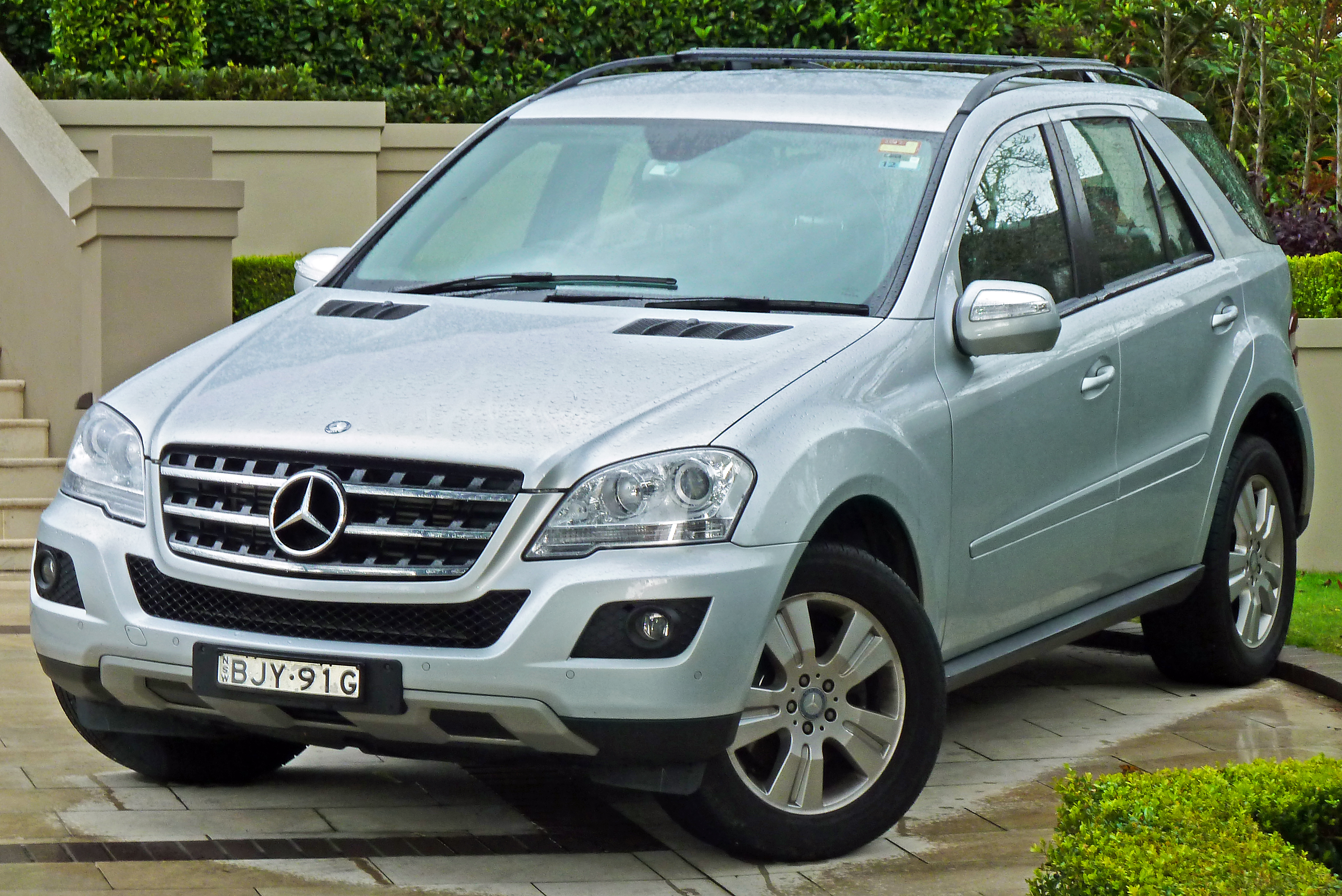 2009 Mercedes-Benz ML 280 CDI (W 164 MY09) wagon. Photographed in Killara, New South Wales, Australia.